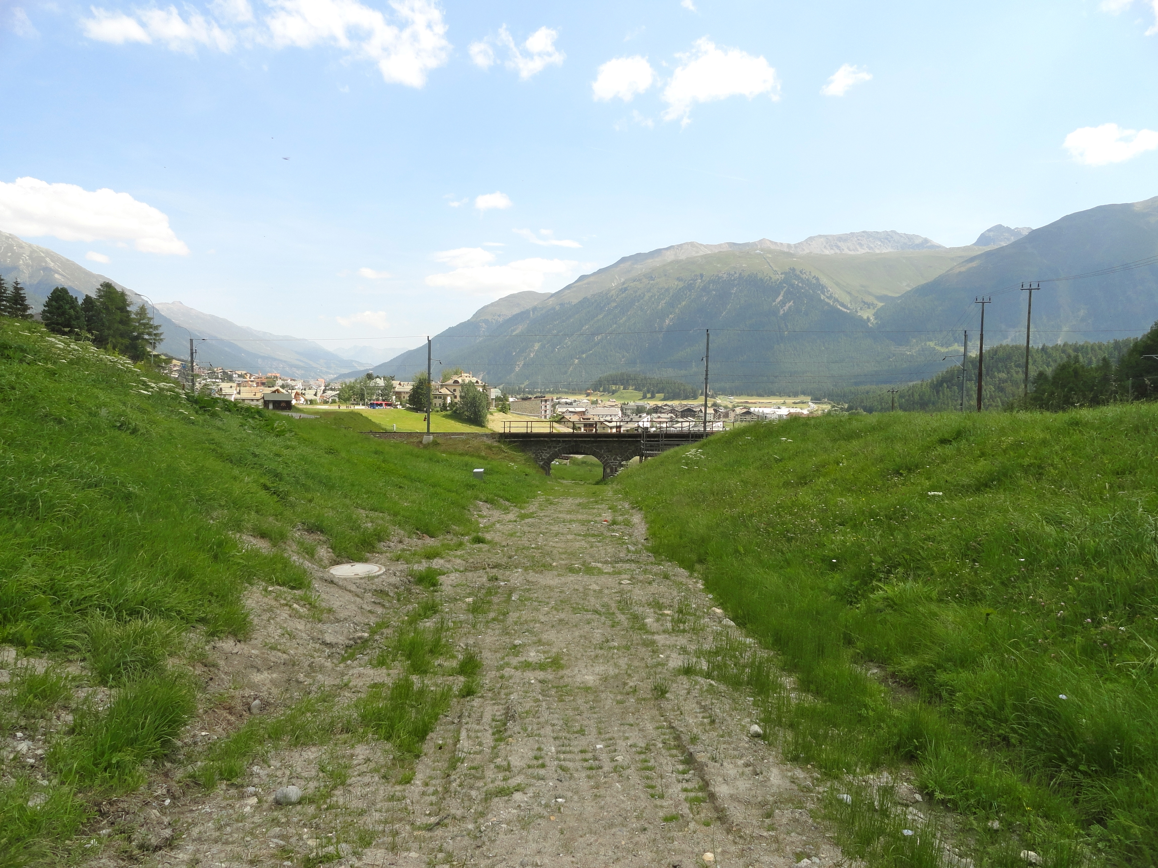 Olympia Bobrun St. Moritz–Celerina, Blick nach Celerina